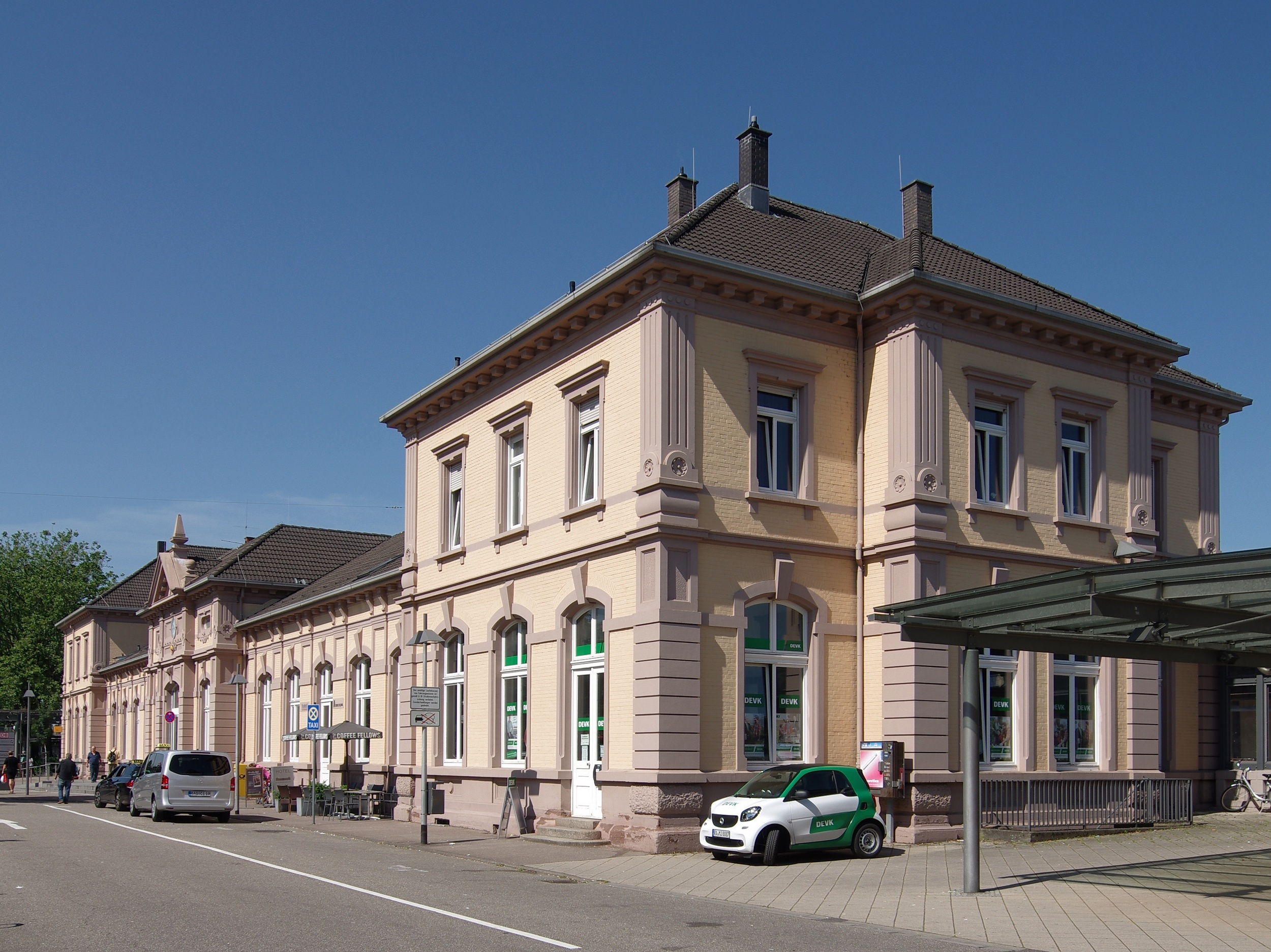 Baden-Baden train station